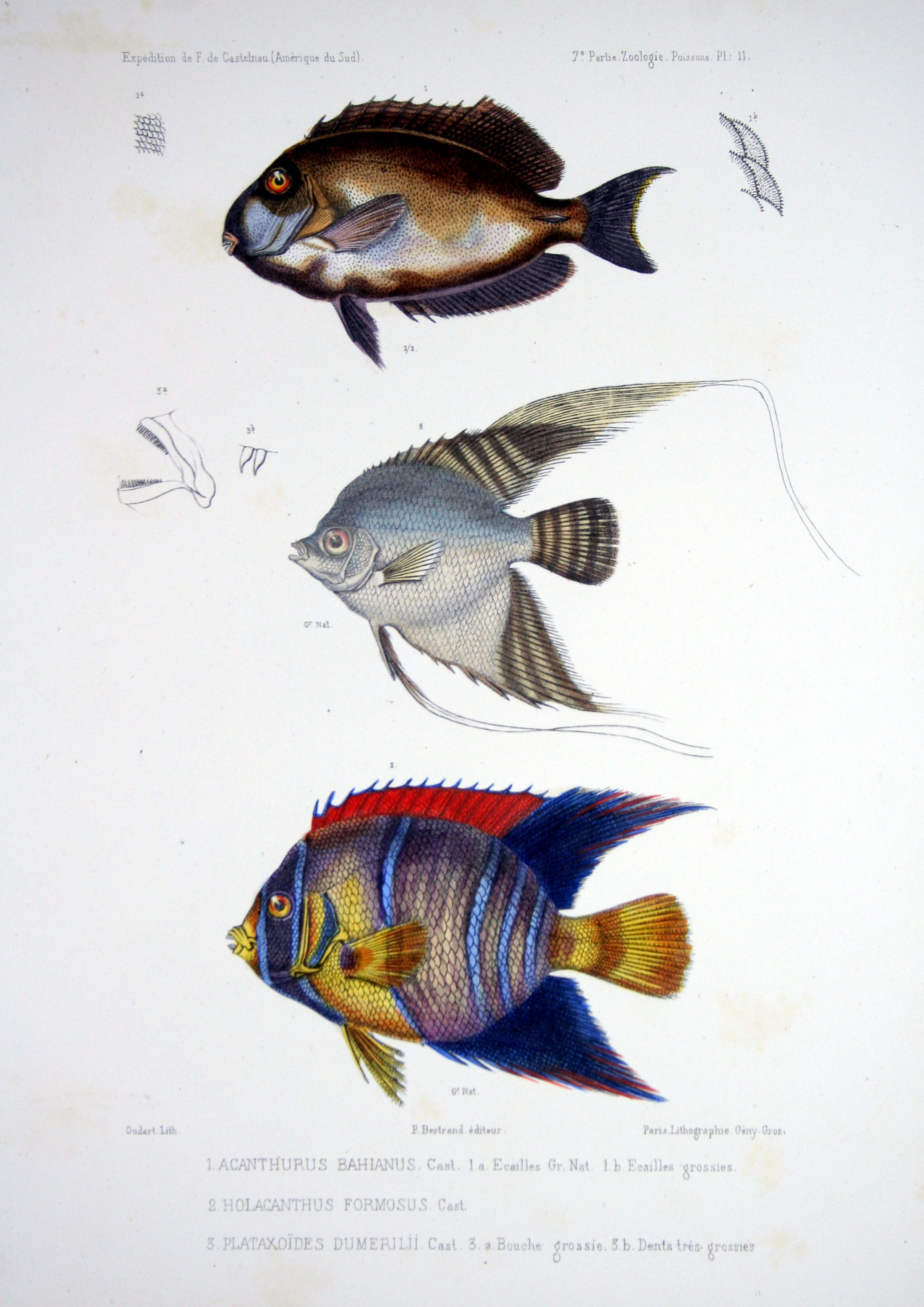 From top to bottom: Acanthurus bahianus (1a: scales, 1b: scales magnified) Plataxoides dumerilii = Pterophyllum scalare (3a: mouth magnified, 3b: teeth magnified) Holacanthus formosus = Holacanthus ciliaris